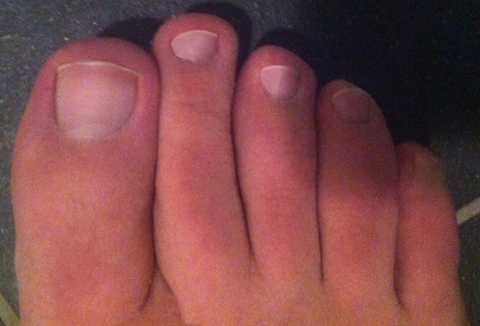 My Greek foot